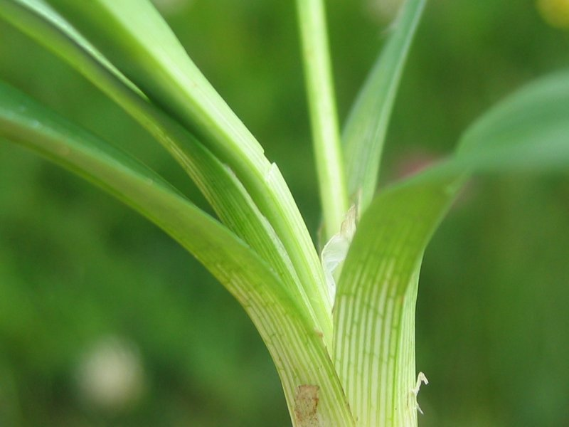 Hirse-Segge Carex panicea, Warnow-Wiesen